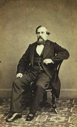 Rudolph Bruun (1820-1906), Danish landowner